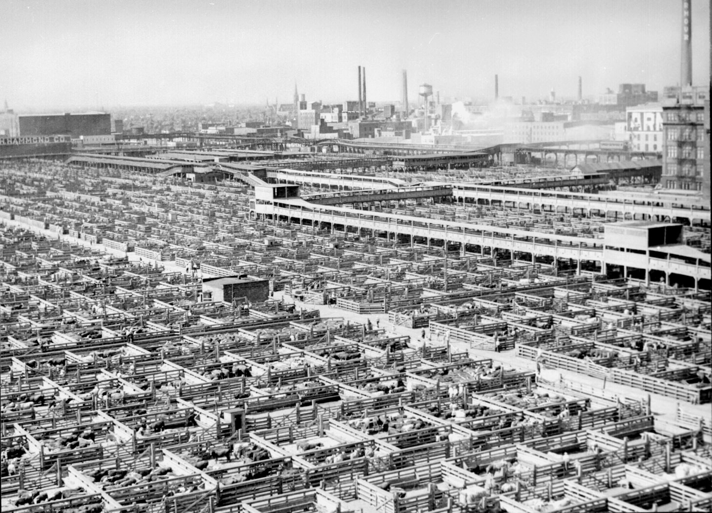 The maze of livestock pens and walkways at the Union Stock Yards, Chicago, Illinois, USA